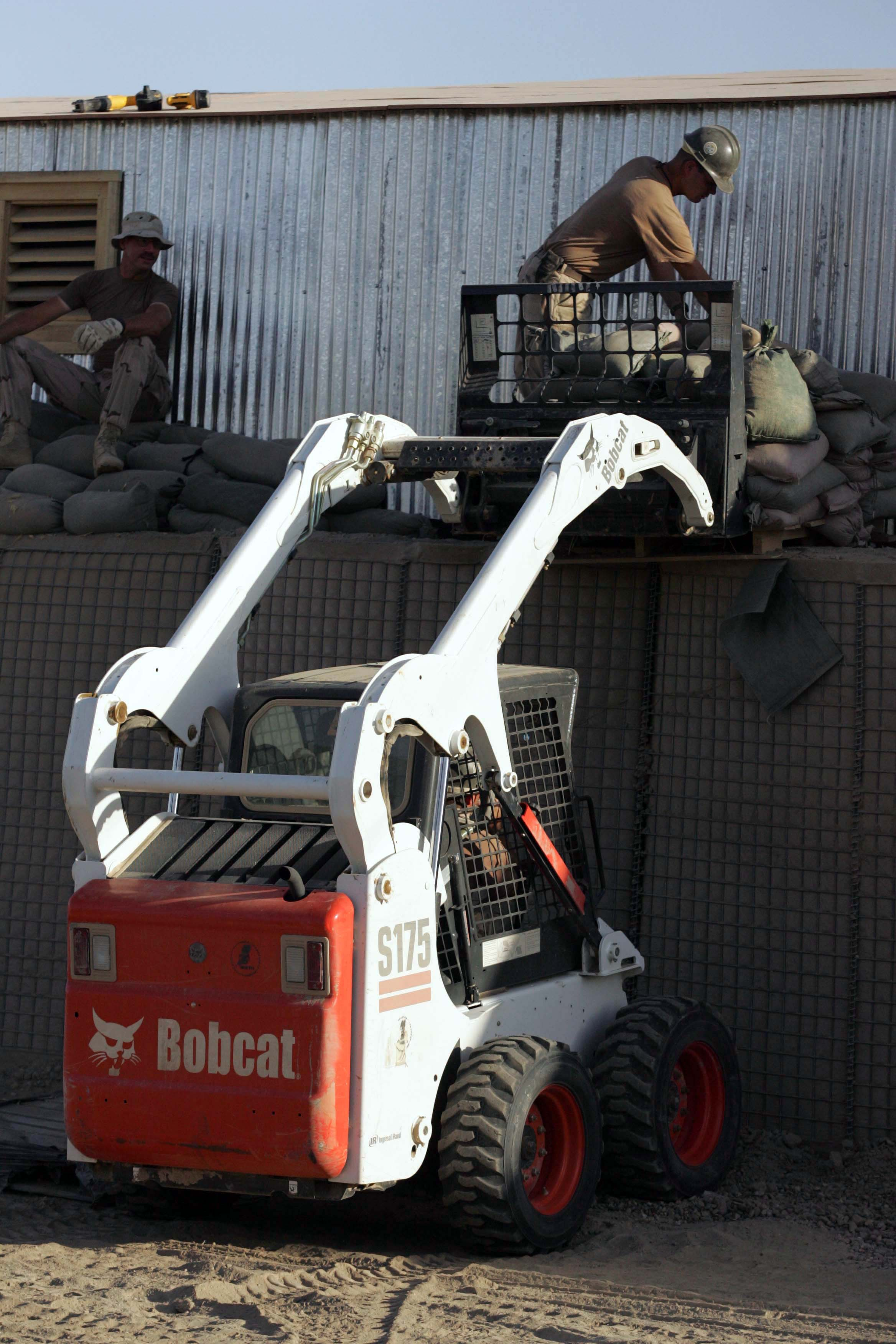 Ar Ramadi, Iraq (June 29, 2005) - A Bobcat tractor is used by U.S. Navy Seabees, assigned to Naval Mobile Construction Battalion Two Four (NMCB-24), to lift bags of sand to a side portion of the roof. The sand bags will serve to harden the newly built structure from the hazards of indirect fire. The Seabees of NMCB-24 are engaged in building a new dining facility aboard Camp Blue Diamond in Ar Ramadi, Iraq. NMCB-24 is currently deployed with 2d Marine Division in support of Operation Iraqi Freedom (OIF). U.S. Marine Corps photo by Warrant Officer Keith A. Stevenson (RELEASED)